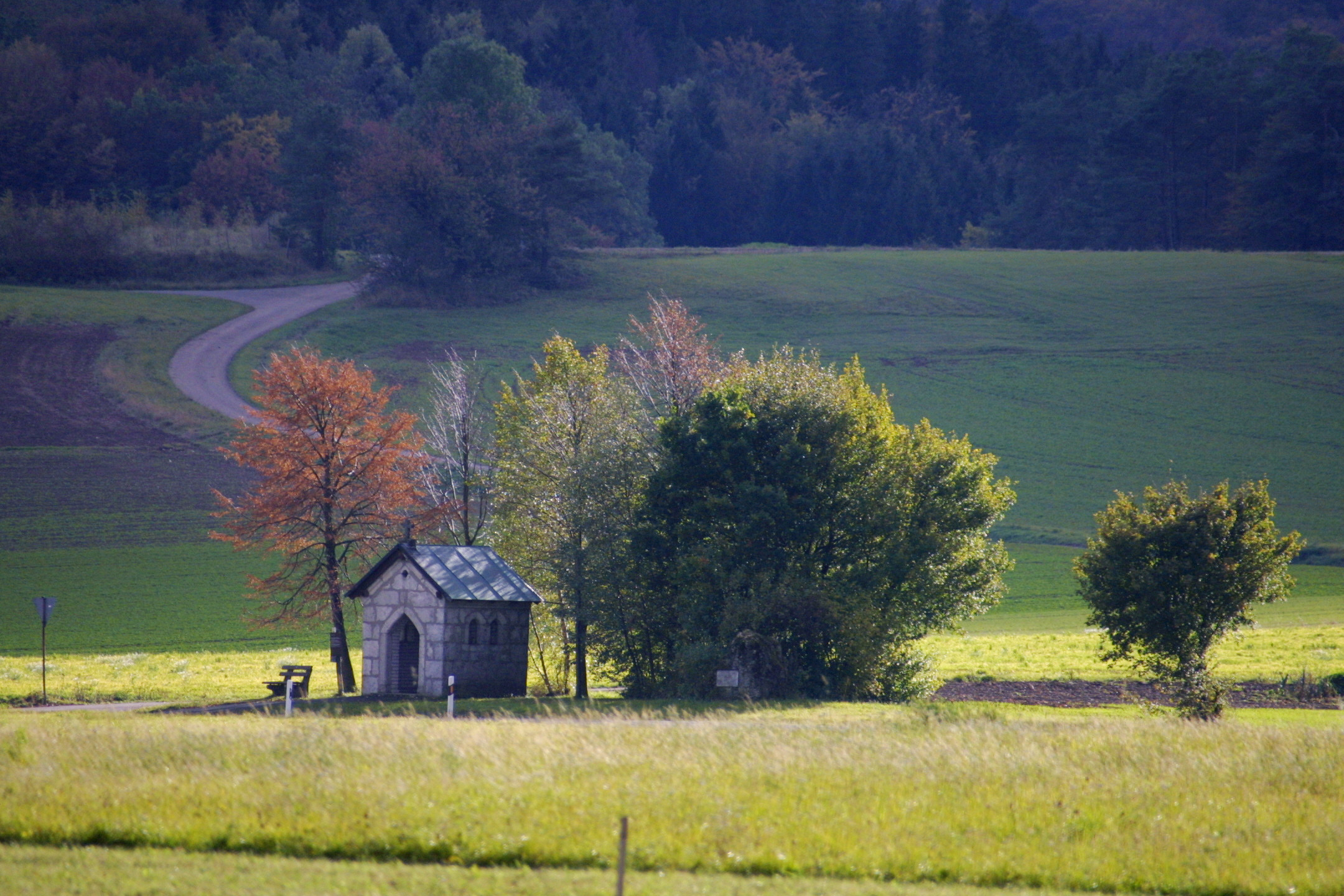 village chapel of Hohenpölz in Franconia